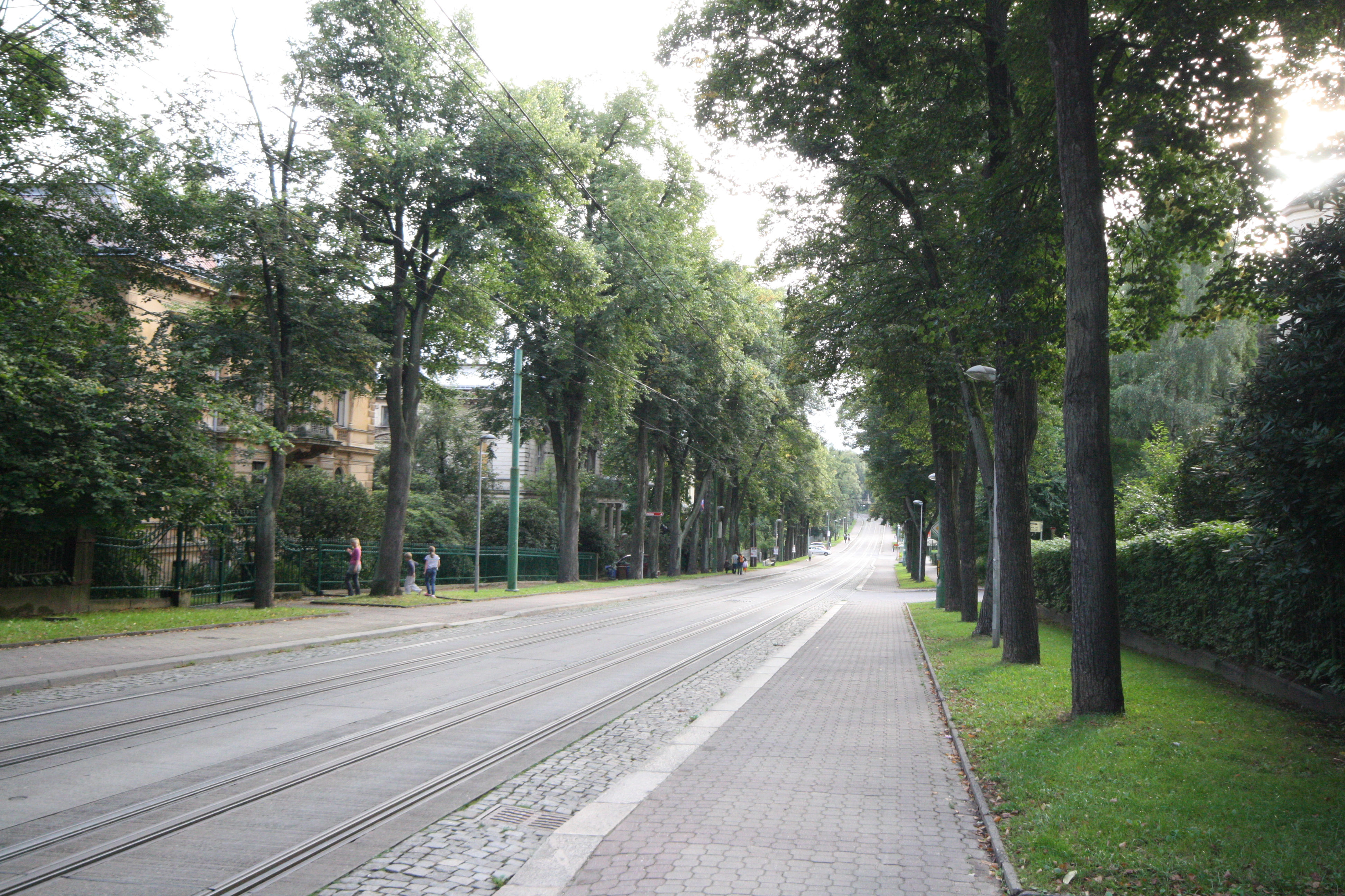 Masarykova street in Liberec, Liberec District.